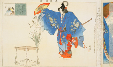 Izutsu, Noh